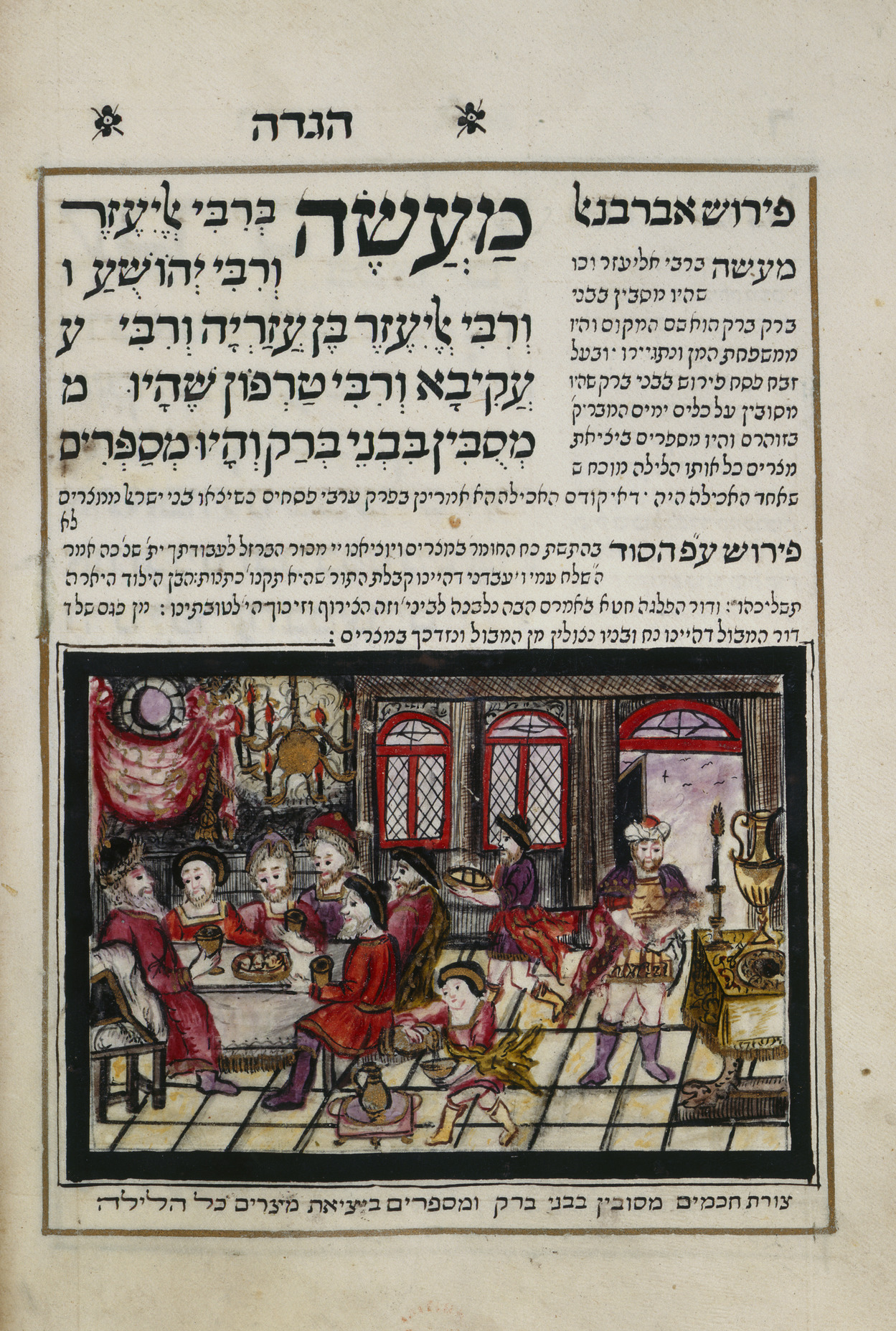 The Rabbis of Bene Brak. The Rabbis of Bene Brak celebrating the Passover .